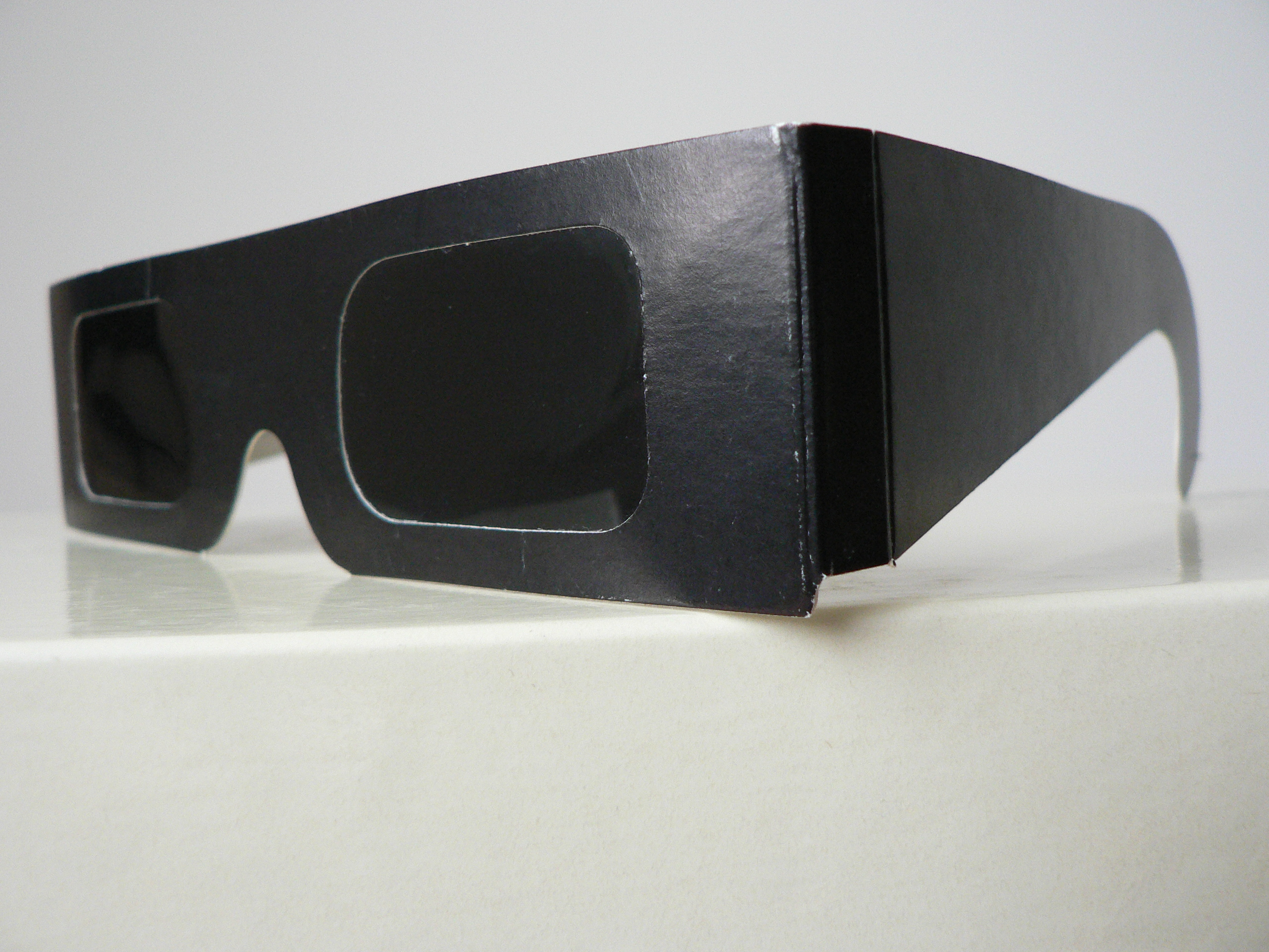 Eclipse glasses.